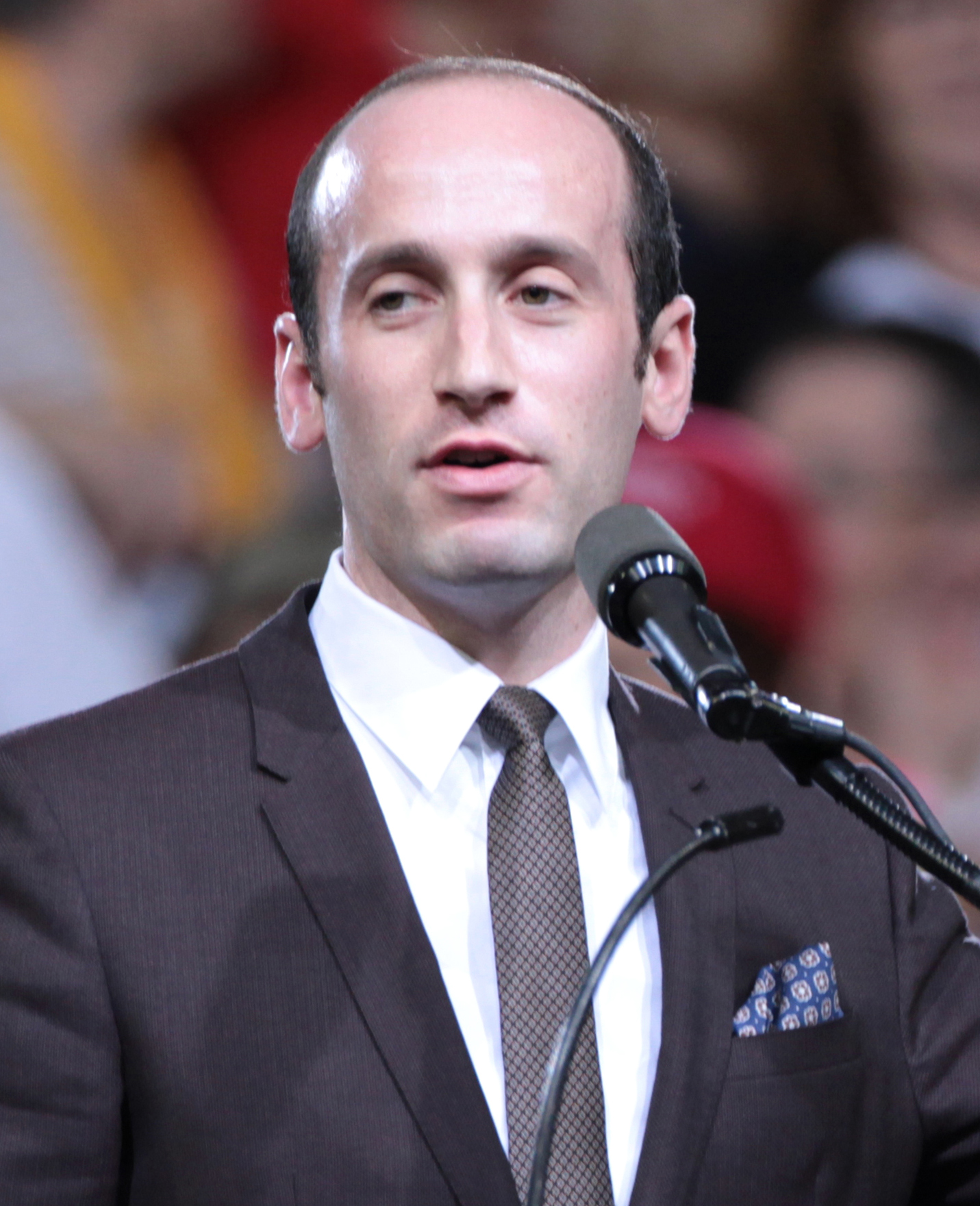 Stephen Miller speaking at an event in Phoenix, Arizona.